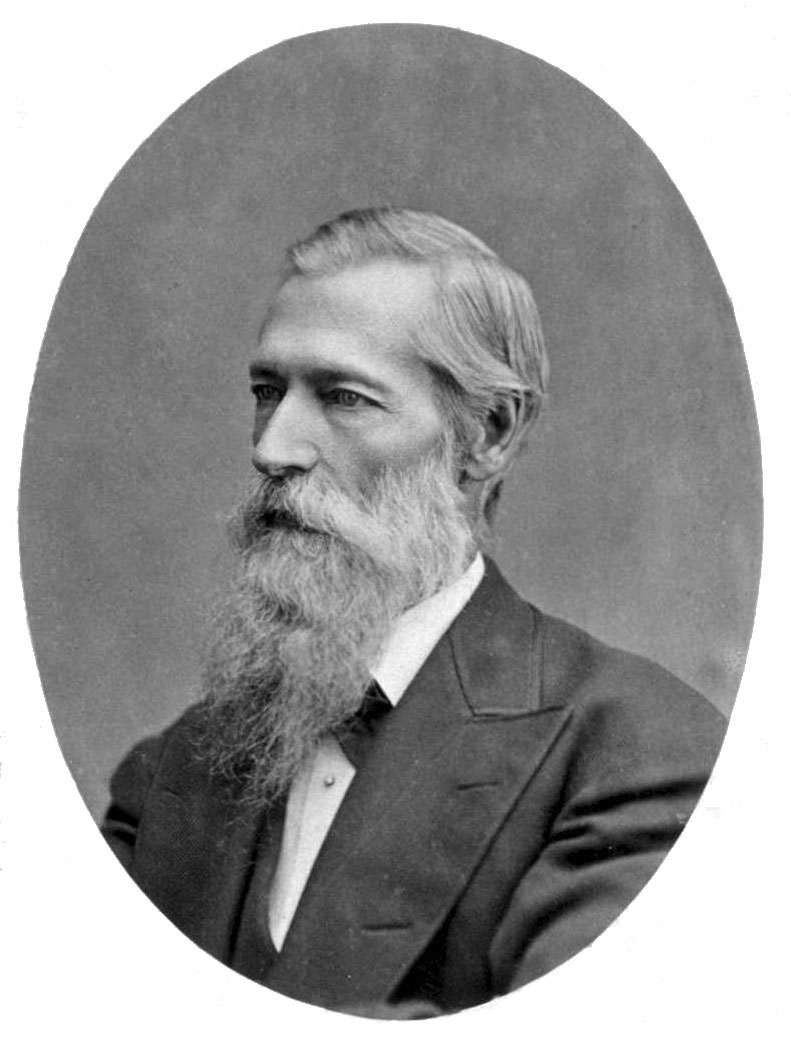 Mark Hopkins (1813-1878), American railroad magnate, co-founder of Central Pacific Railroad